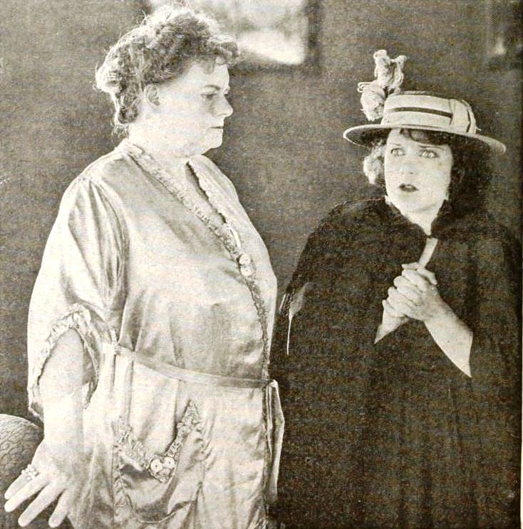 Still for the American silent film Cinderella's Twin (1920) with Victory Bateman and Viola Dana, on page 62 of the August 1921 Photoplay.